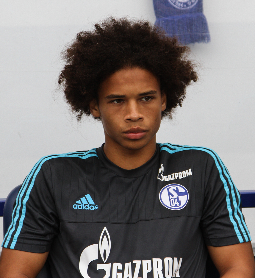 Leroy Sane before FC Schalke 04 match against MSV Duisburg in DFB Cup.